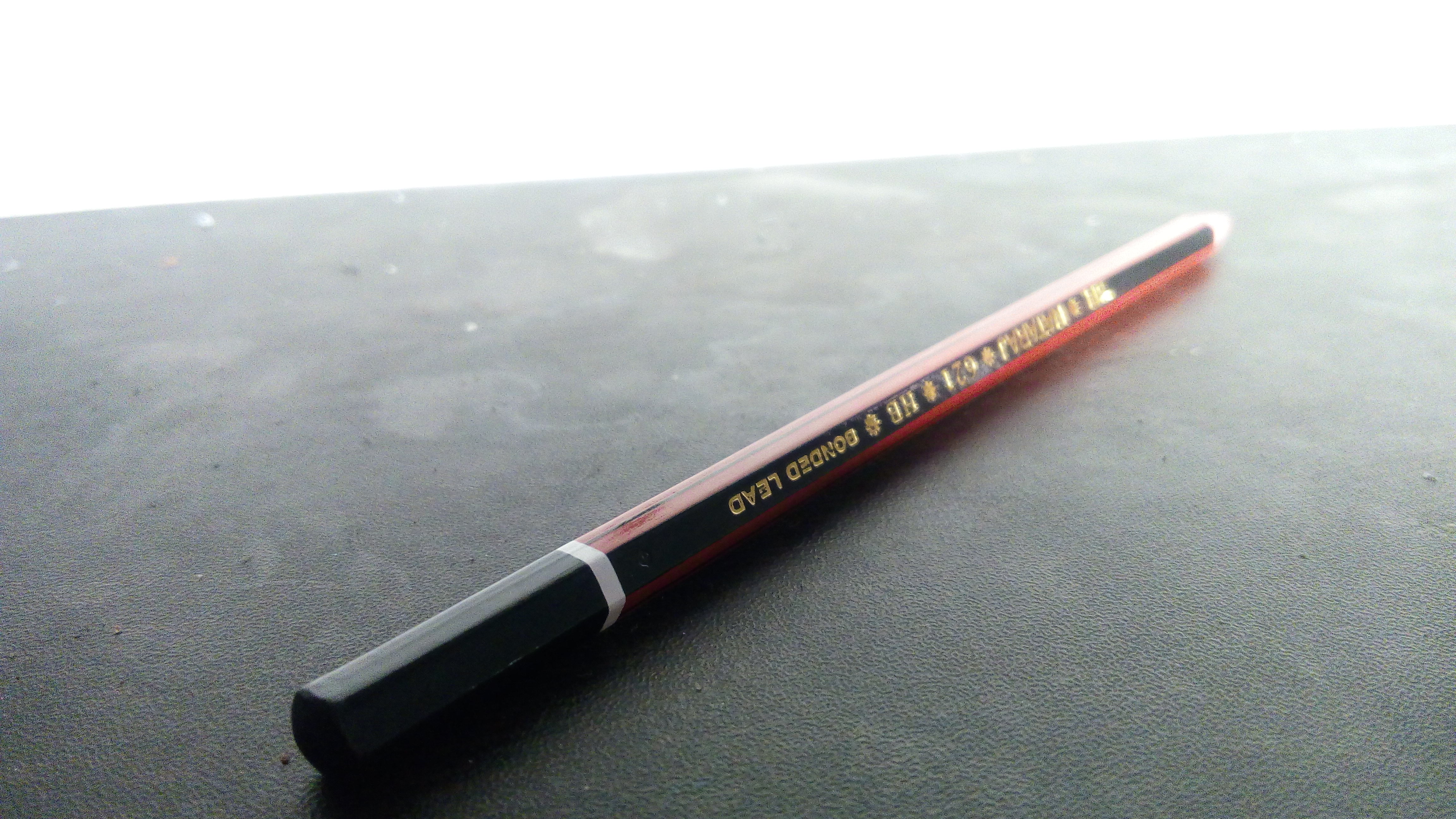 Pencil